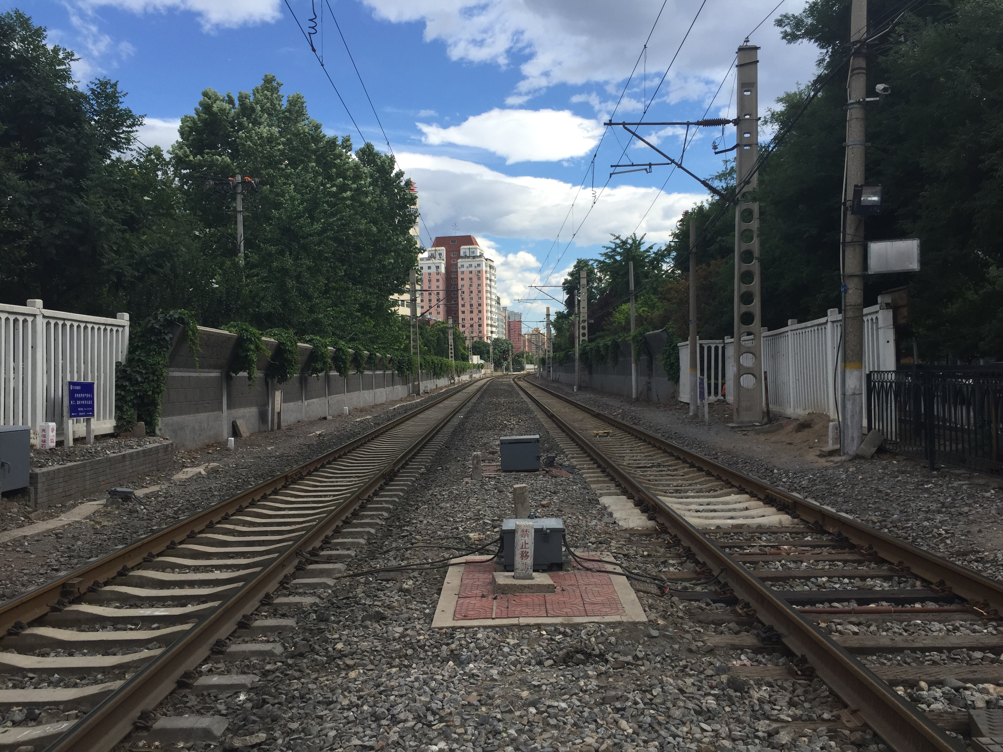 Under a fine sunny day.